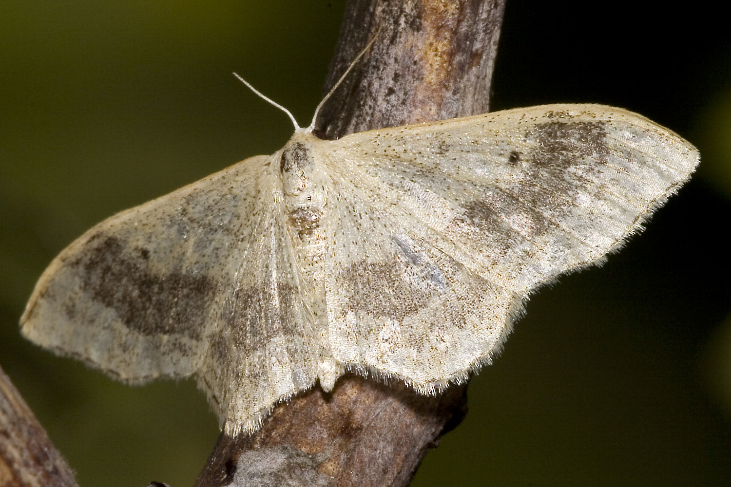 Riband Wave